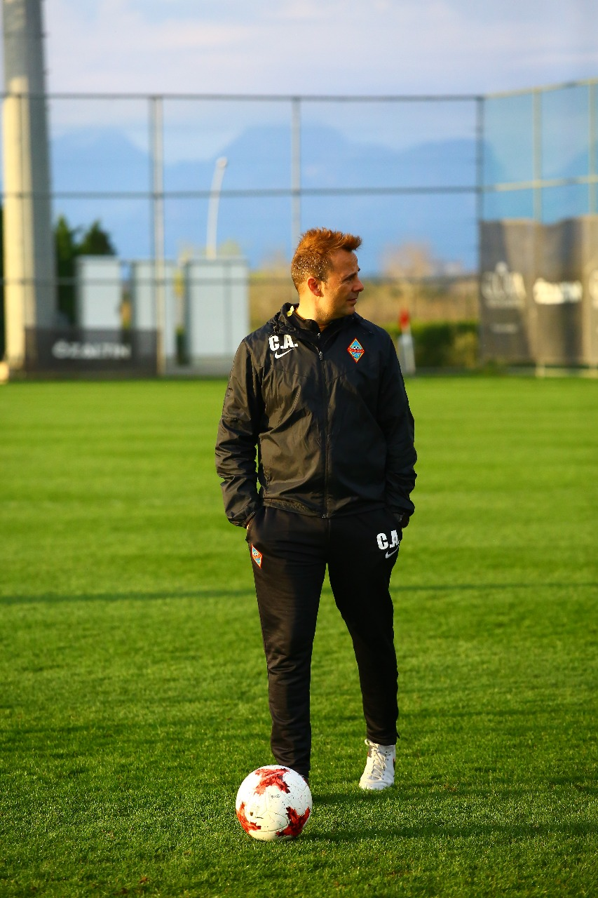 Alós with Kairat Almaty in 2017